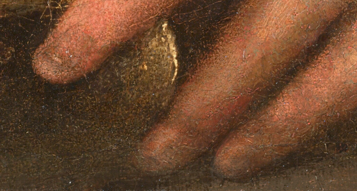 With time, the fingers appear slightly bluish